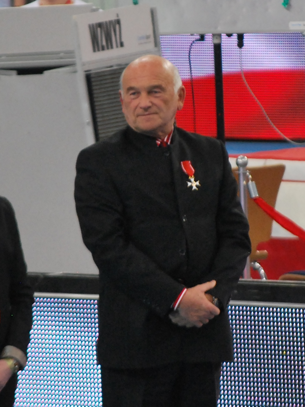 Pedros Cup 2015 Łódź, Edward Szymczak, athletics coach from Poland